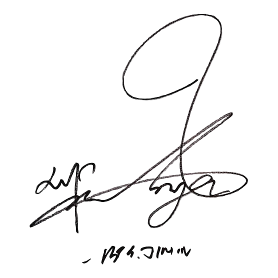 Signature of Park Ji-min (BTS)